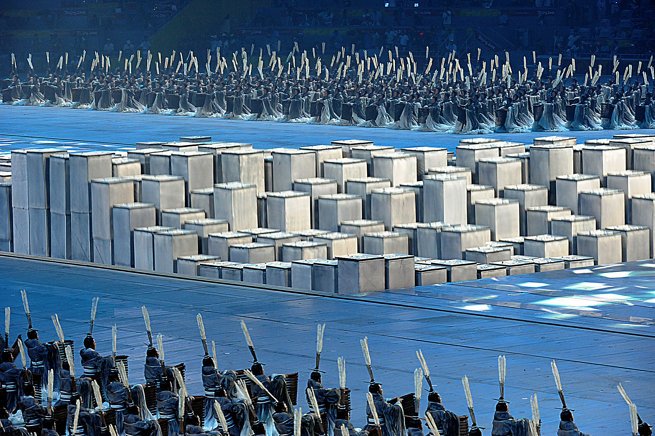 A digitally “painted” scroll unfurling Chinese history during the August 8th, 2008, Olympic Opening Ceremony is lifted to reveal these gray boxes, which represent printing blocks, that rearranged themselves to form the Chinese character for the word “harmony” before transforming into a replica of the Great Wall. Hidden inside the movable-type setting costumes are hundreds of Chinese dancers.